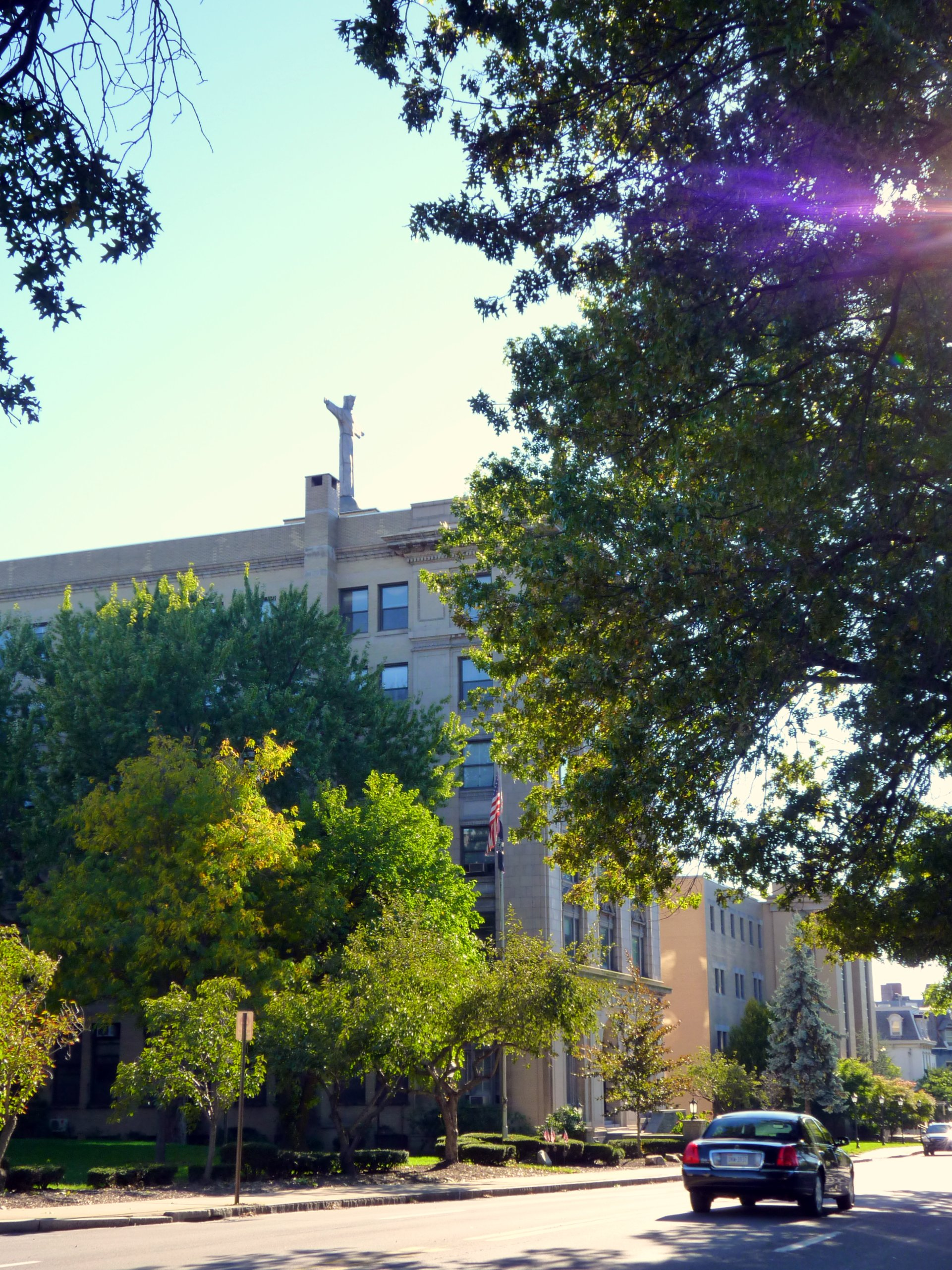 King's College, at Wilkes-Barre, Pennsylvania, United States.